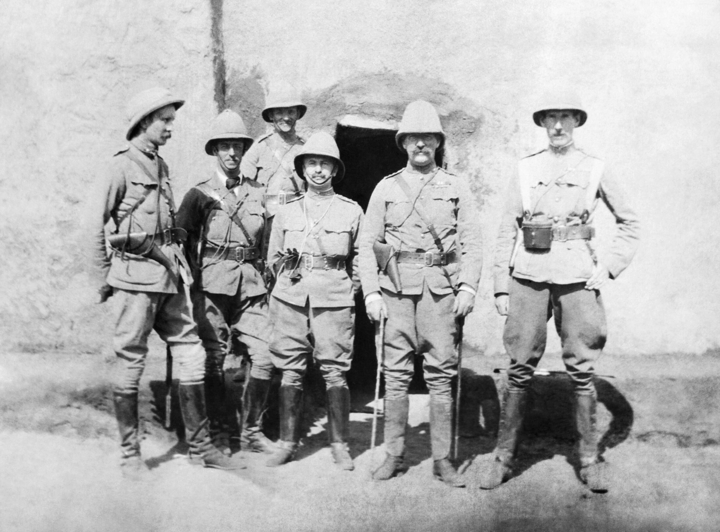 General Kitchener and the Anglo-egyptian Nile Campaign, 1898 Director of Military Intelligence, Colonel Sir Francis Wingate and staff with Lord Edward Cecil (right). Major Cecil was one of General Kitchener's ADCs. Colonel Wingate succeeded Kitchener as Sirdar of the Egyptian Army and Governor General of Sudan. He was responsible for overseeing the reconstruction of the country after the campaign.